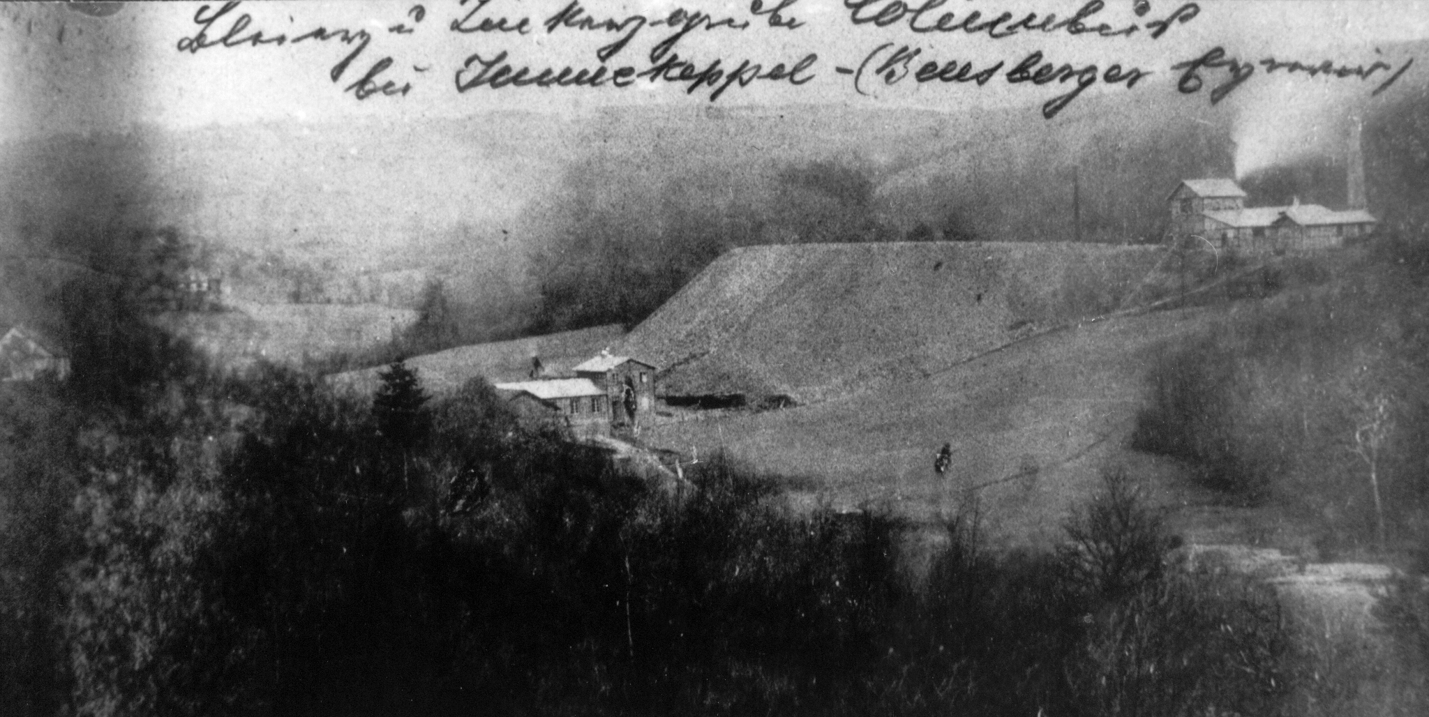 Mine Columbus near Bensberg about 1890